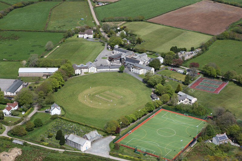 Scg